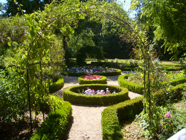 View of the entrance to the garden of George Sand, Nohant